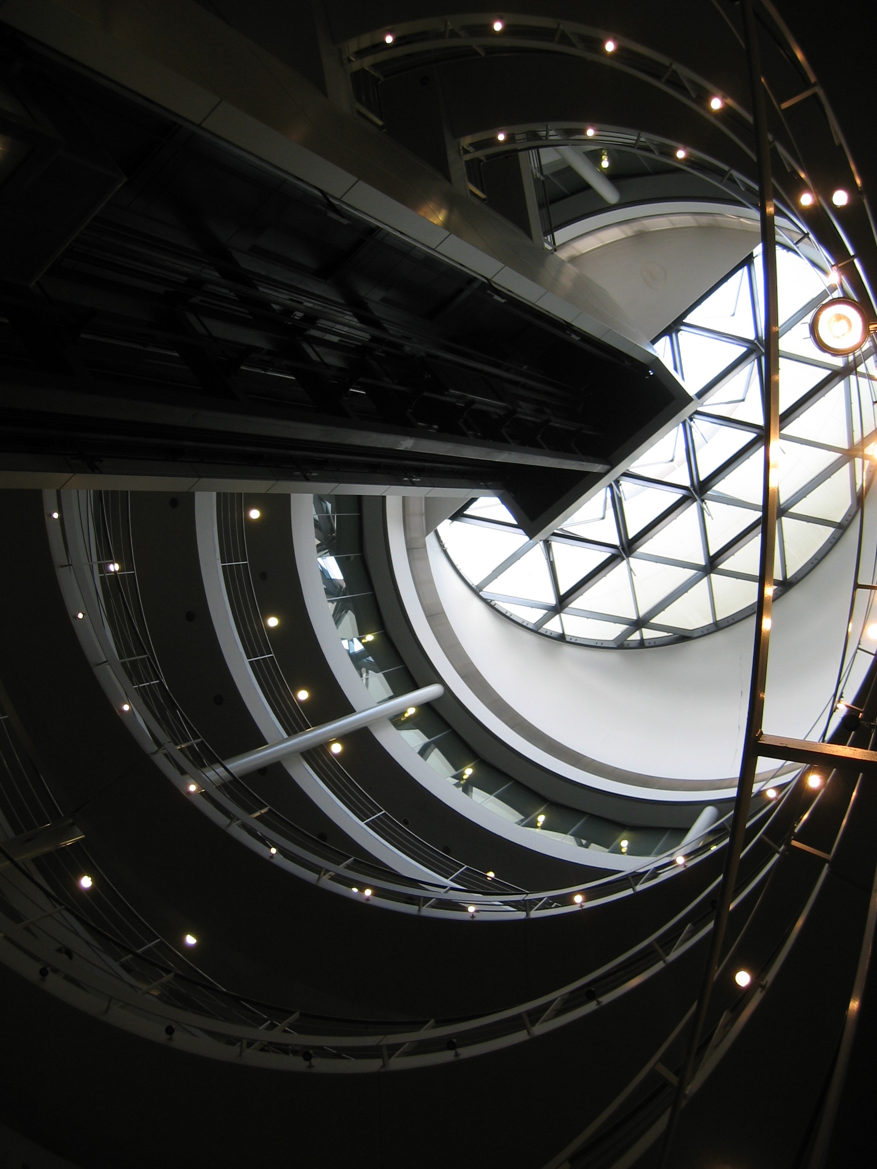 LSE Library Elevator